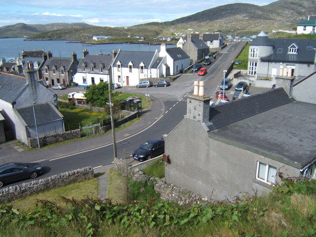 Castlebay from the Church Looking down on the town from the elevated position of the Church of 'Our Lady, Star of the Sea'. The building on the right with the curved tower is the Community Centre.